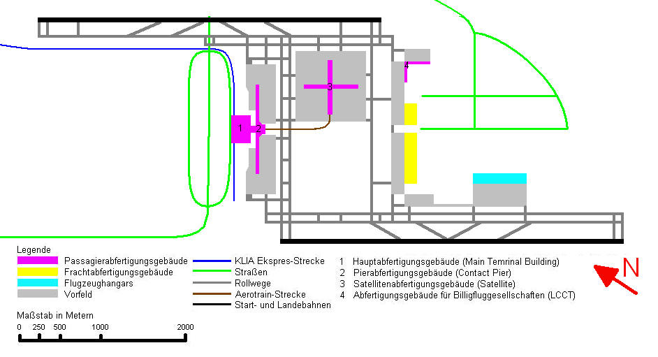 Sheme of KLIA, made it myself with Paint.exe